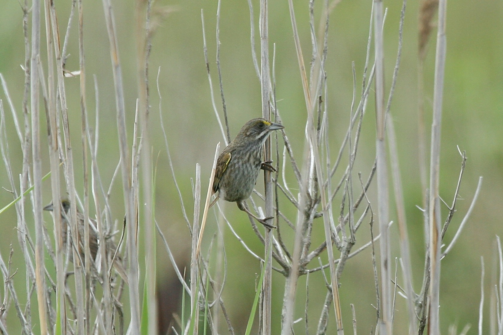 Seaside Sparrow (Ammodramus maritimus maritimus)